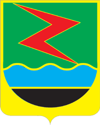 Myski (Kemerovo oblast), coat of arms